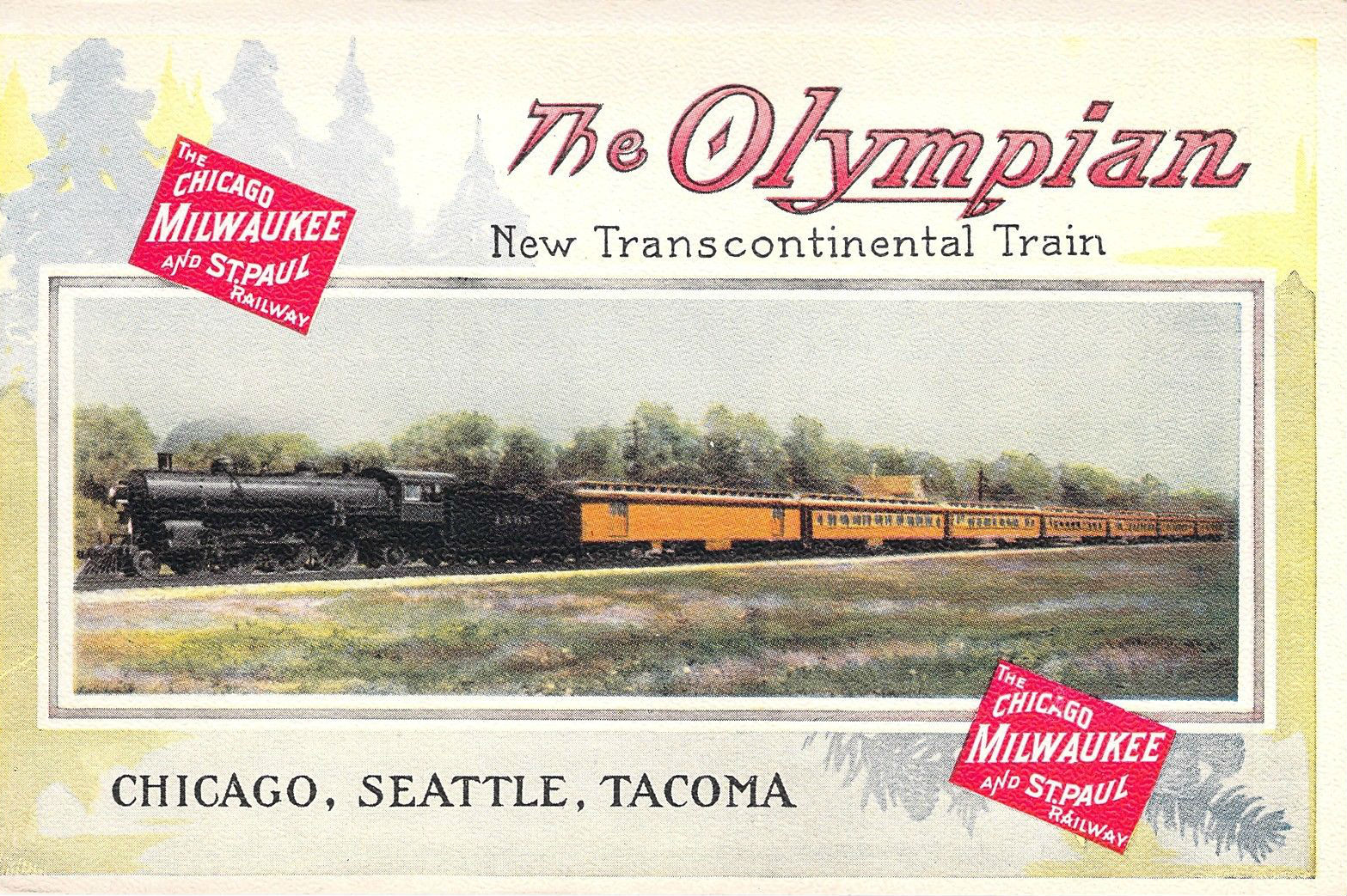 Postcard photo of The Olympian, which traveled between Chicago and Seattle on the Milwaukee Road.